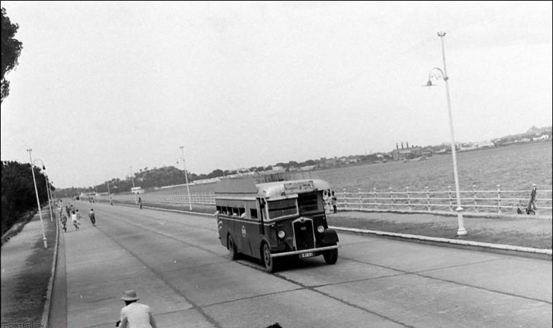 A view of NSR bus on Tank Bund road c. 1932. These Albion Motors buses were imported from Scotland by Nizam State Rail and Road Transport Department.